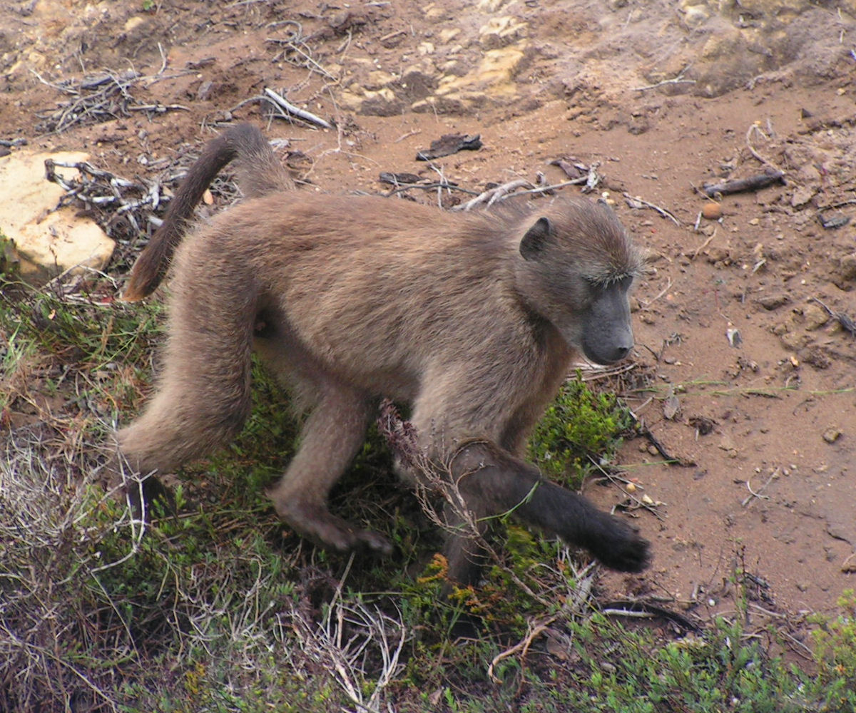 Cape Chacma Baboon (Papio ursinus ursinus), Cape of Good Hope, South Africa